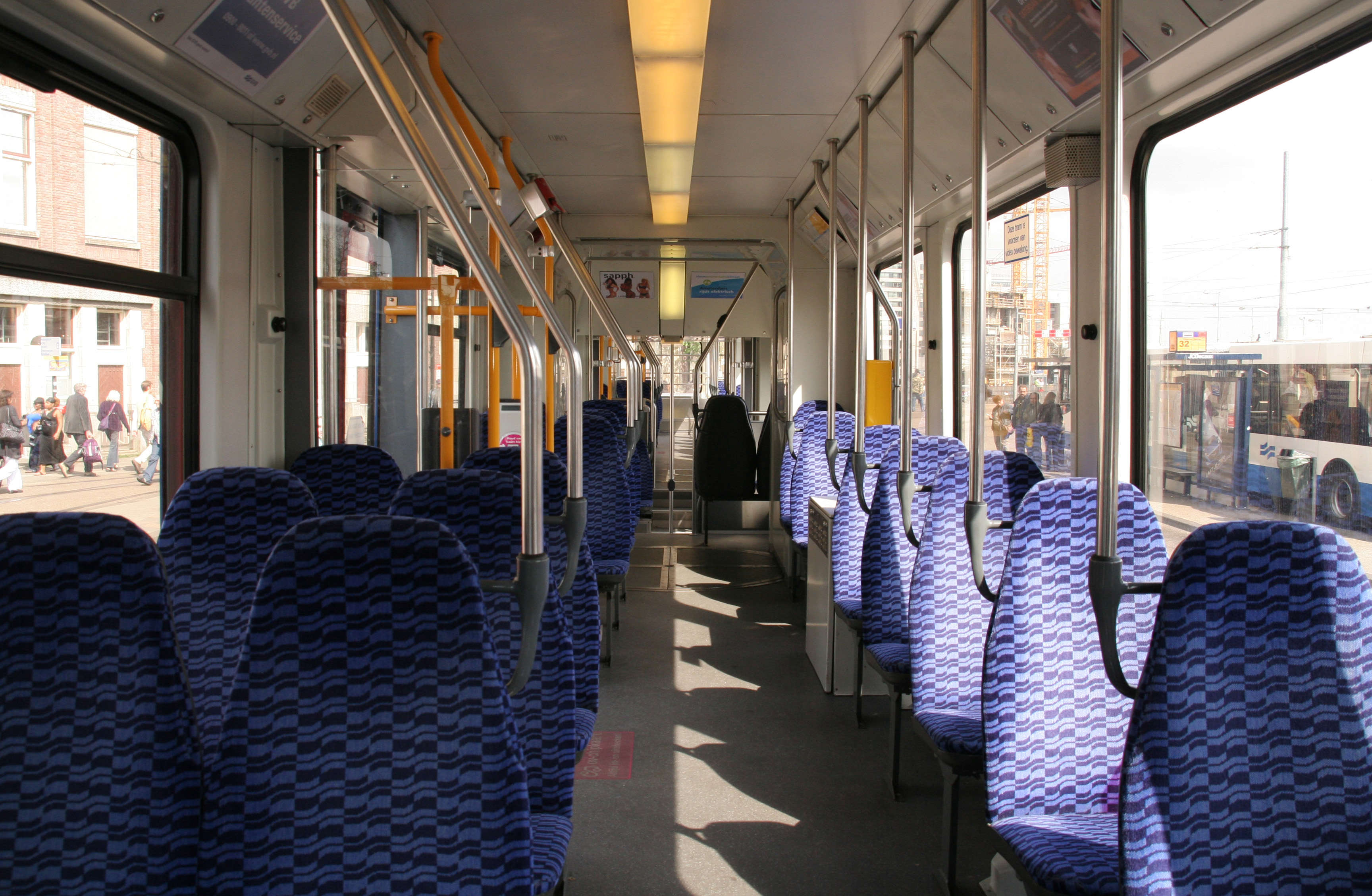 Interior 12G tram